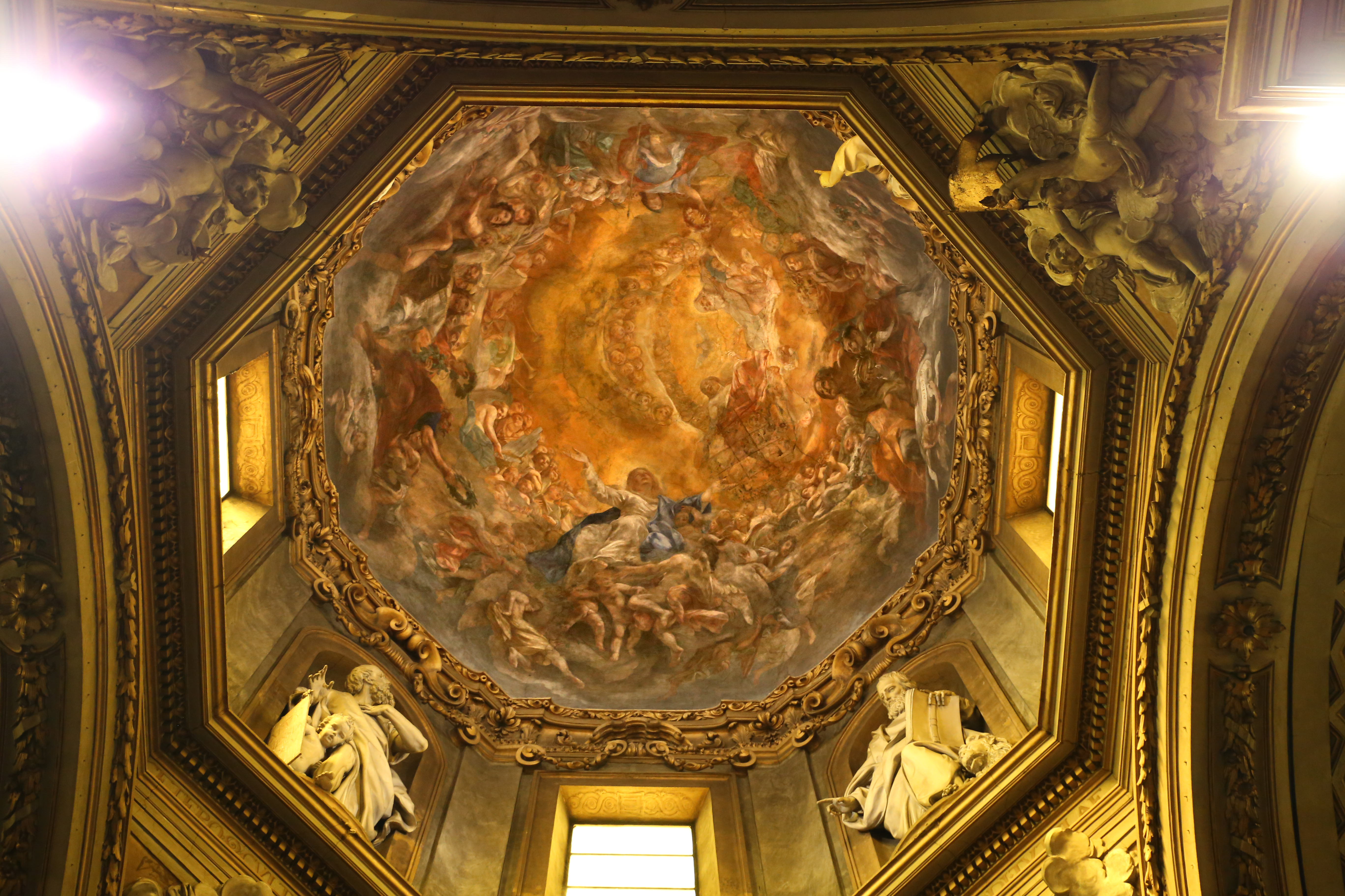 Assumption of the Virgin by Carlo Cignani